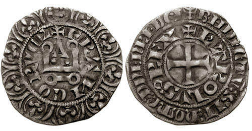 France. Cherles IV de France. 1322-1328. AR Maille Blanche (or 1/2 gros) (21mm, 1.74 g). Second issue, 1324. +BNDICTV, etc, +KAROLVS • REX, cross +FRANCORVM R (M R ligate), Châtel tournois, floral border of ten embedded lis. Duplessy 243c; Ciani 258 var. (legend).